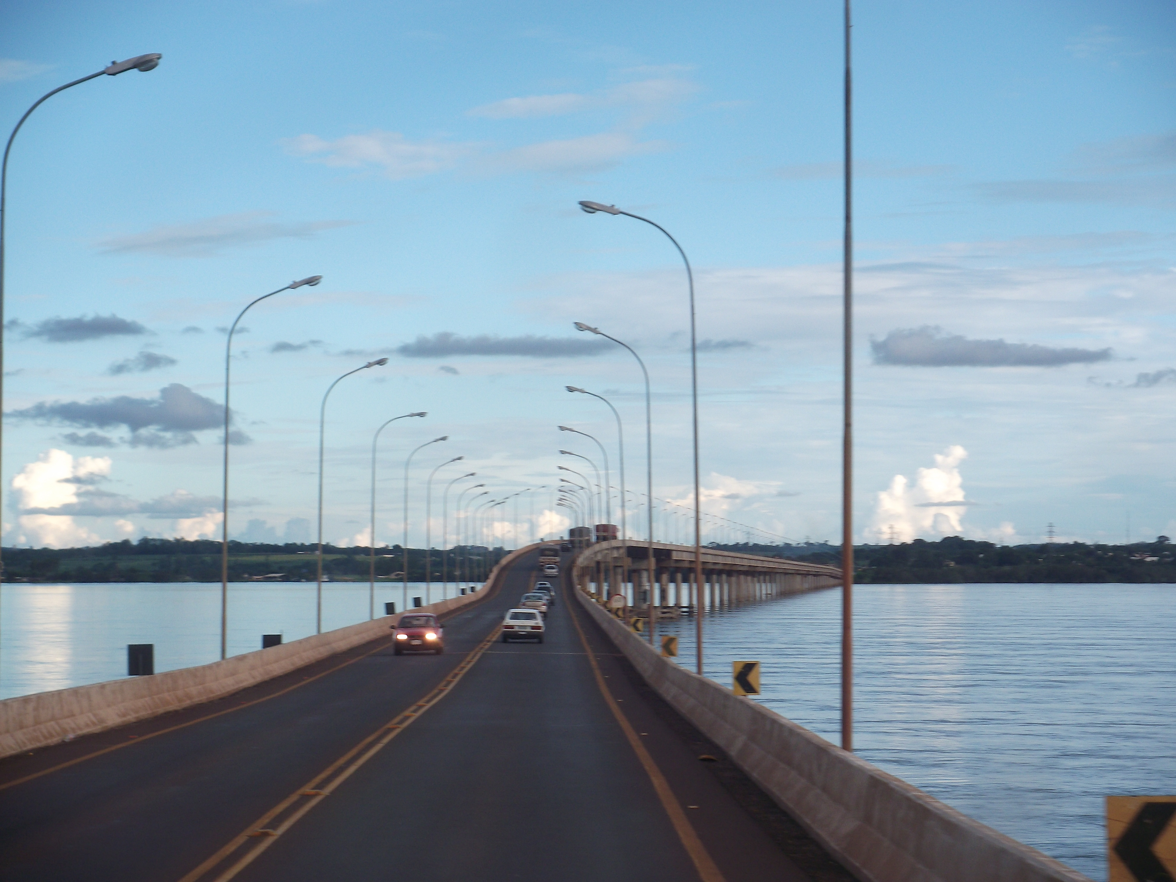 Bridge in Paraná River. (Guaíra, BR)